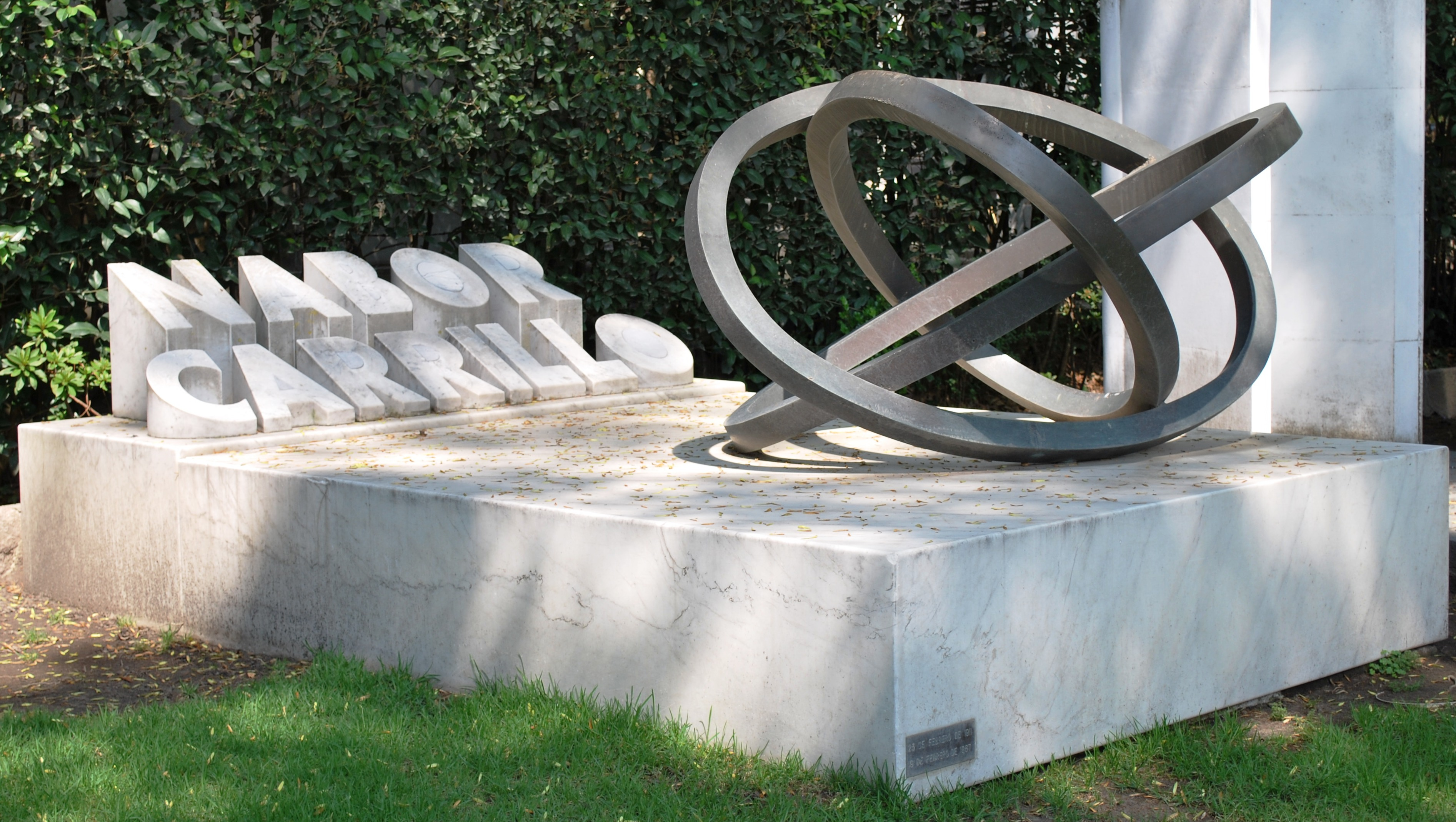 Tomb of Nabor Carrillo in the Panteon Civil de Dolores cemetery in Mexico City